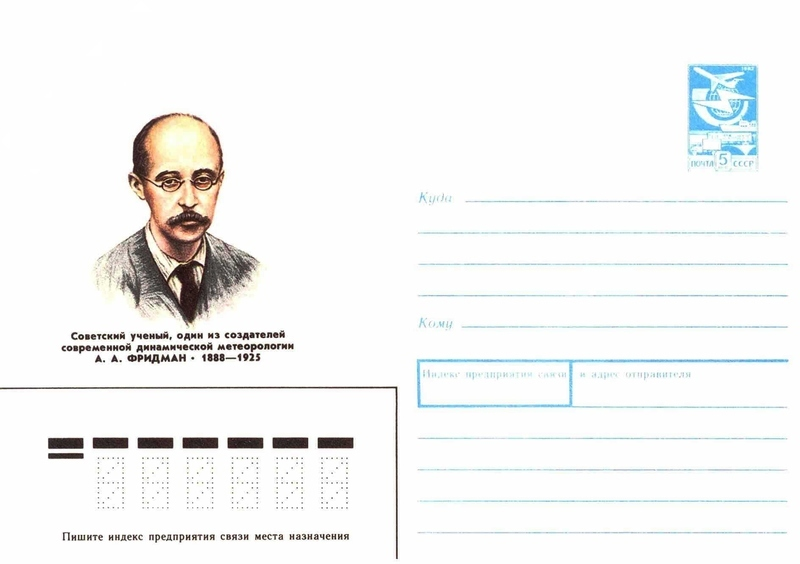 1988 Soviet postal cover